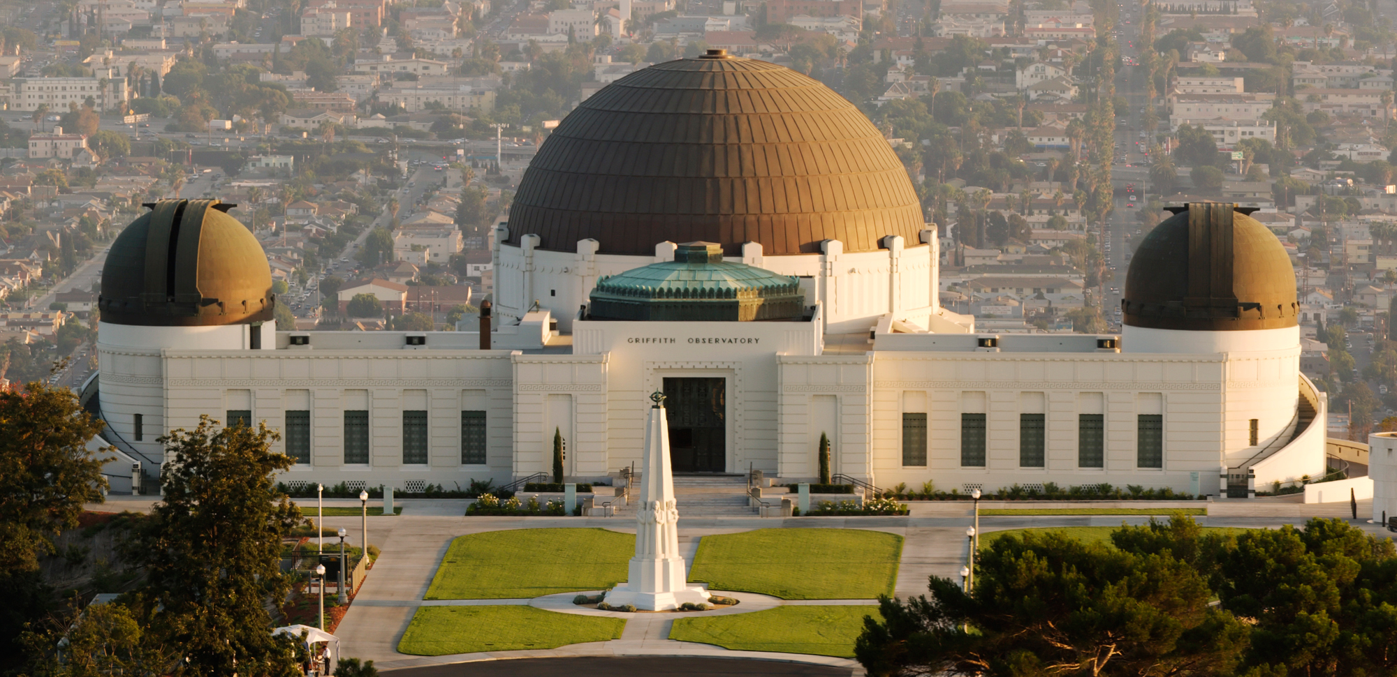 A front view of Griffith Observatory, sitting above Hollywood in Griffith Park, Los Angeles, California. A four-image stitch, Canon 20D w/ 300mm F4L from the Hills to the North.